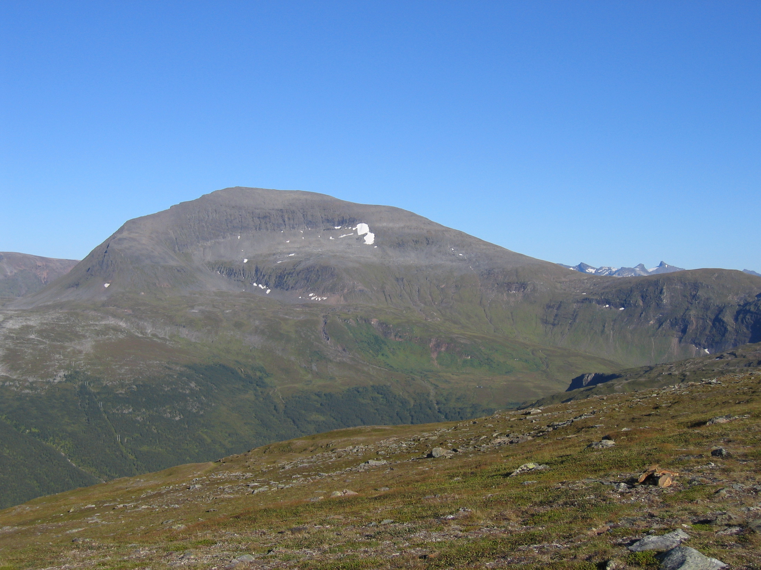 The Tromsdalstind in August. Photo taken from Fløya.